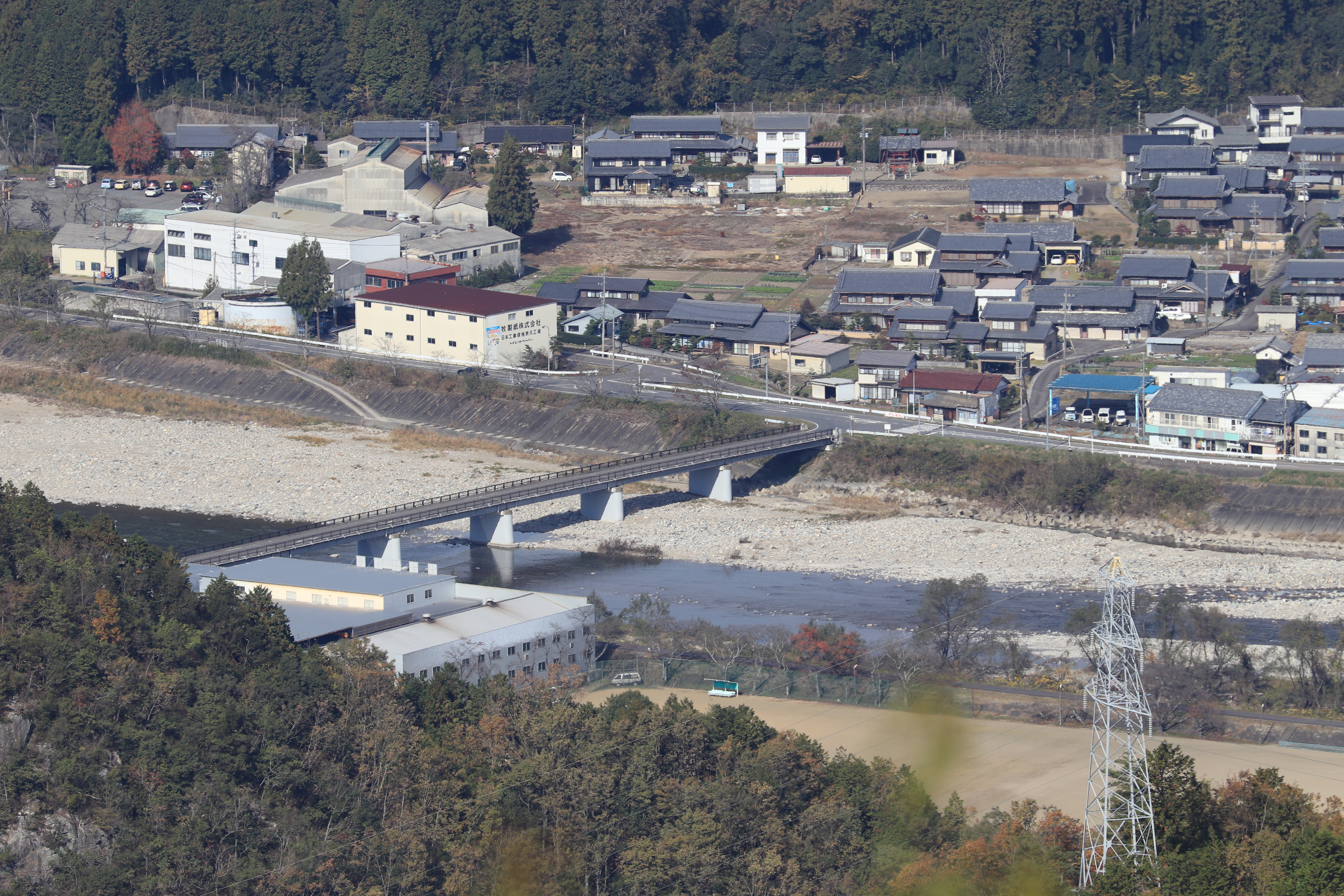 Mutsu Bridge over Itadori River on Gifu Prefectural Road Route 290 (ueno-Seki Line) and Gifu Prefectural Road Route 81 seen from Mount Tenno in Ueno, Mino, Gifu Prefecture, Japan.